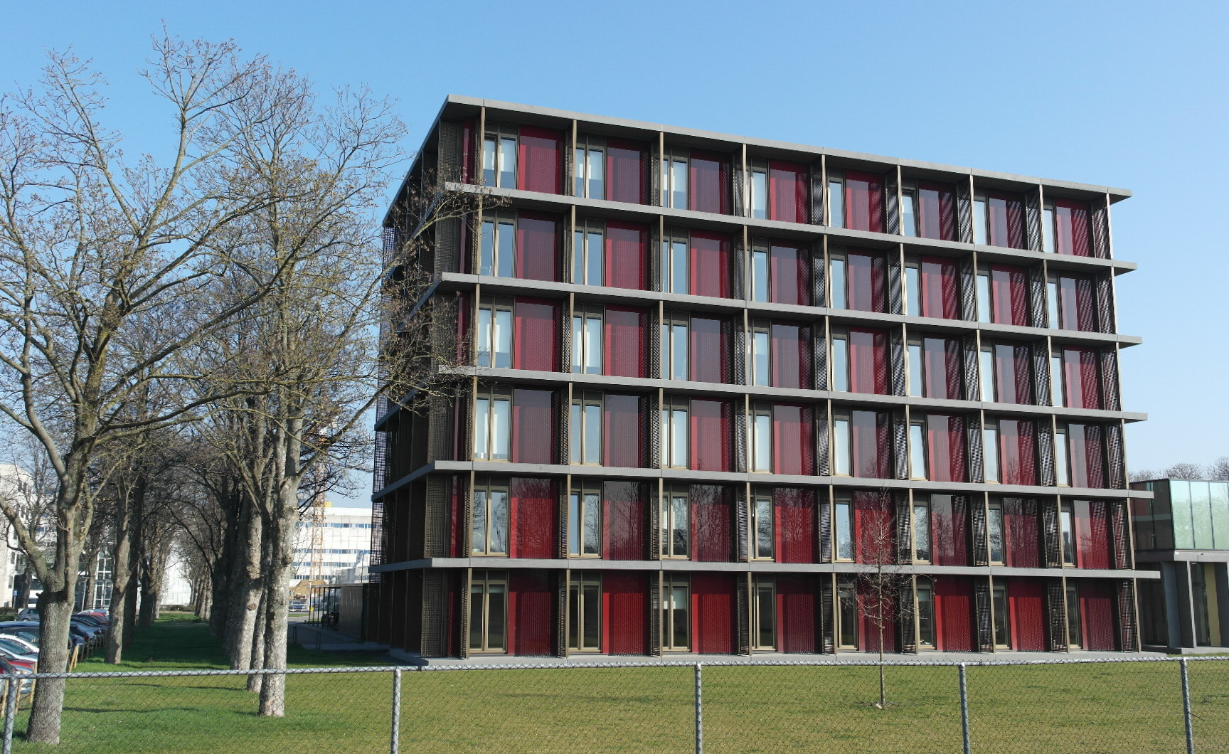 Maastricht, the Netherlands. View of the Brains Unlimited building, part of the University of Maastricht's Health Campus in the district of Randwyck.